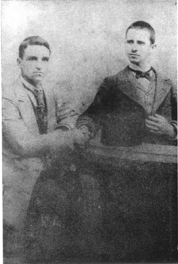 Dimo Hadzhidimov - left, and a schoolmate from the Kyustendil Pedagogical School 1892